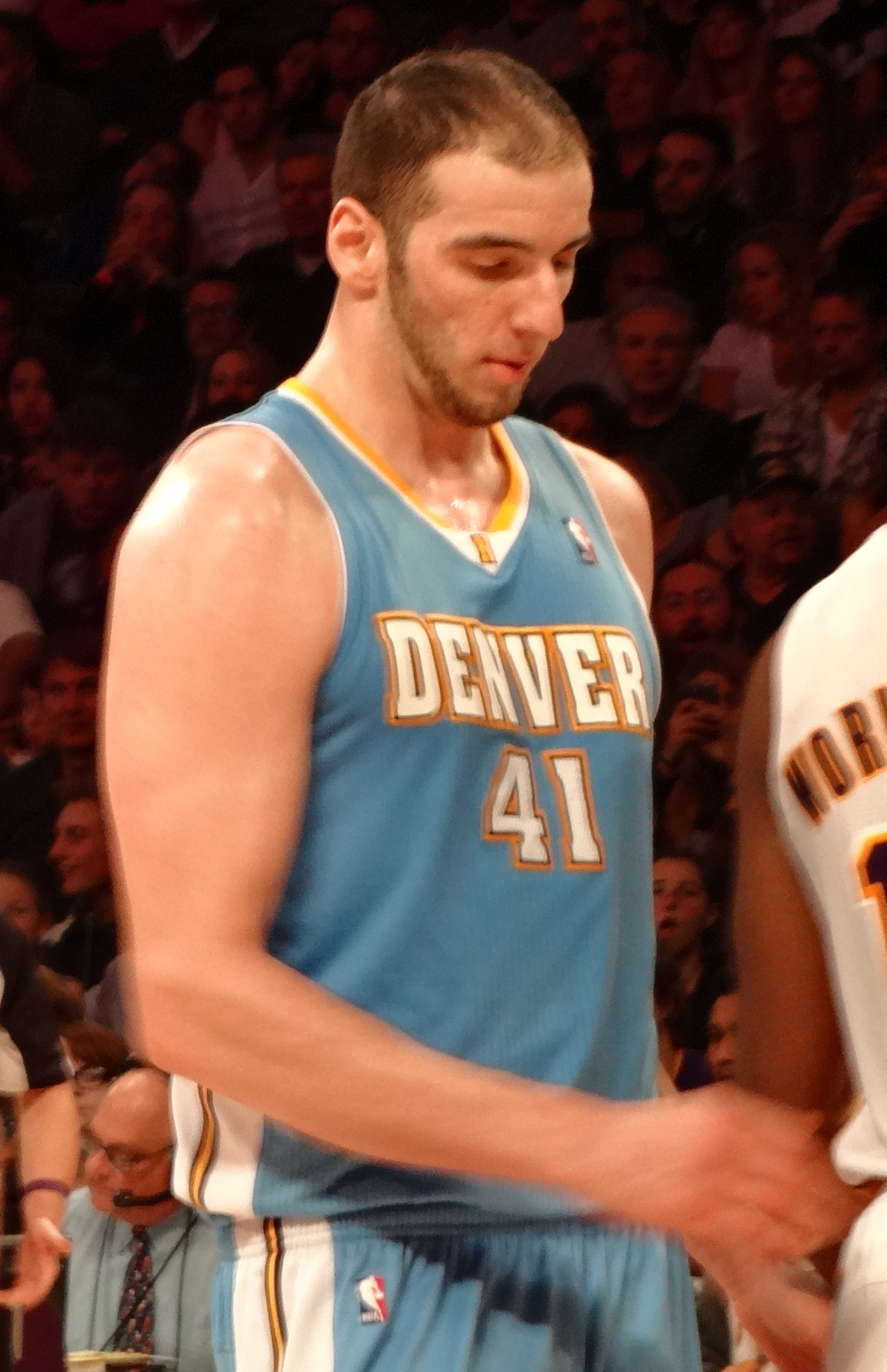 Los Angeles Lakers vs Denver Nuggets at the Staples Center. Kosta Koufos.